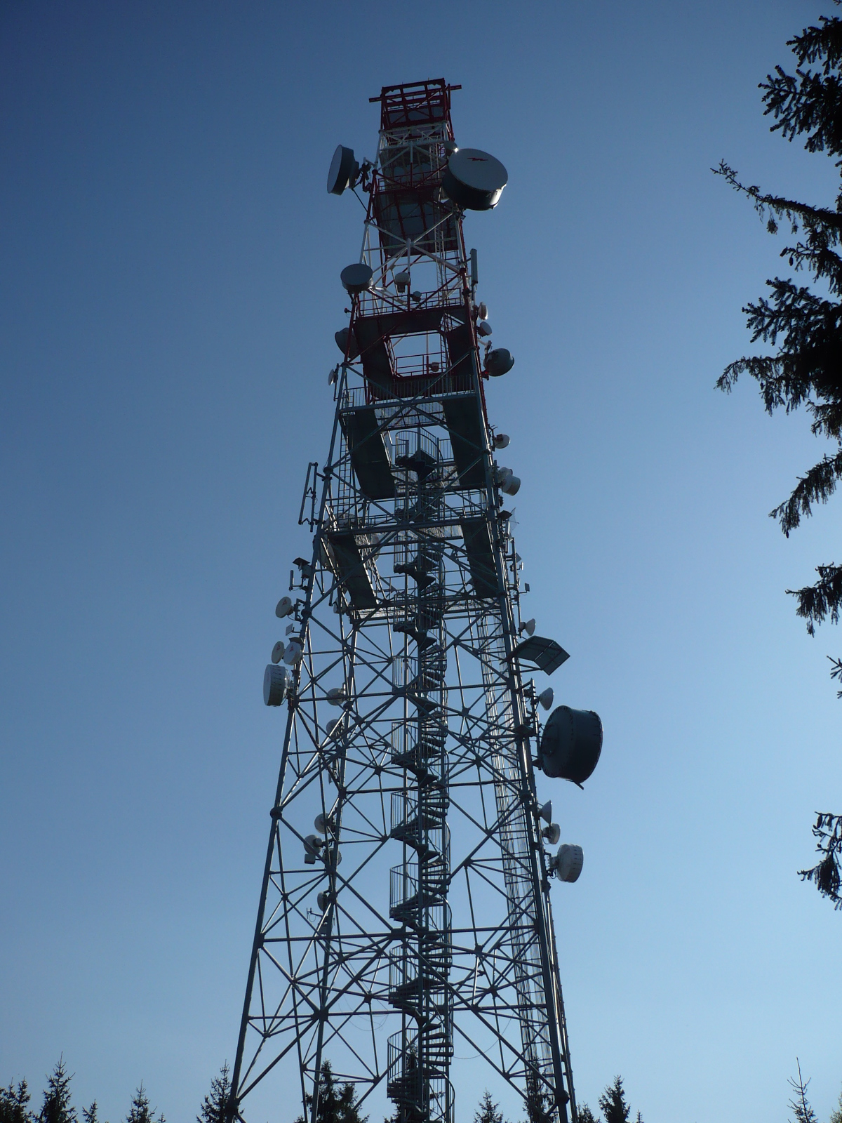 Doubrava Observation tower